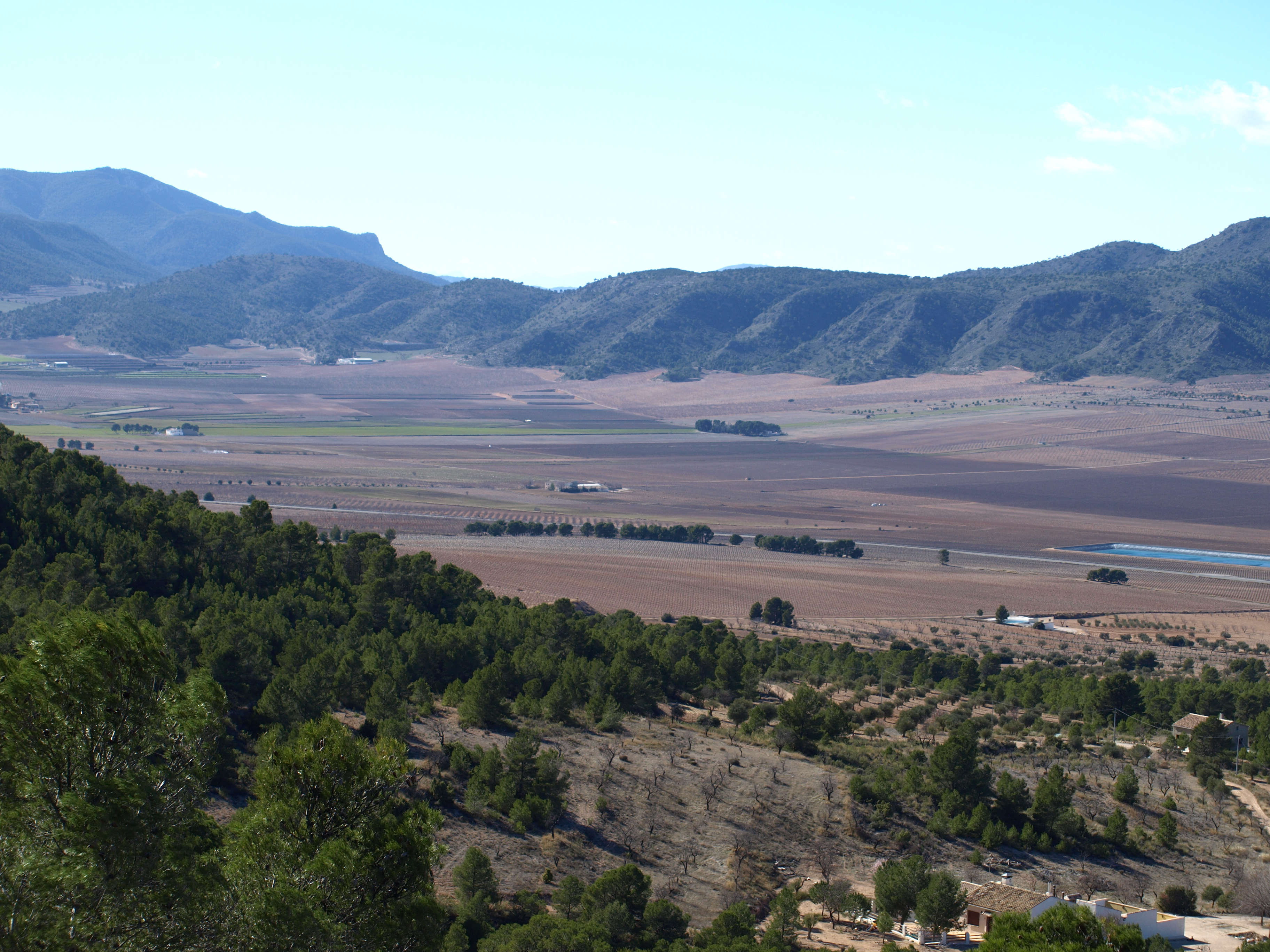 This is a photography of a Site of Community Importance in Spain with the ID: ES6200008. Natura2000 entry, EEA entry